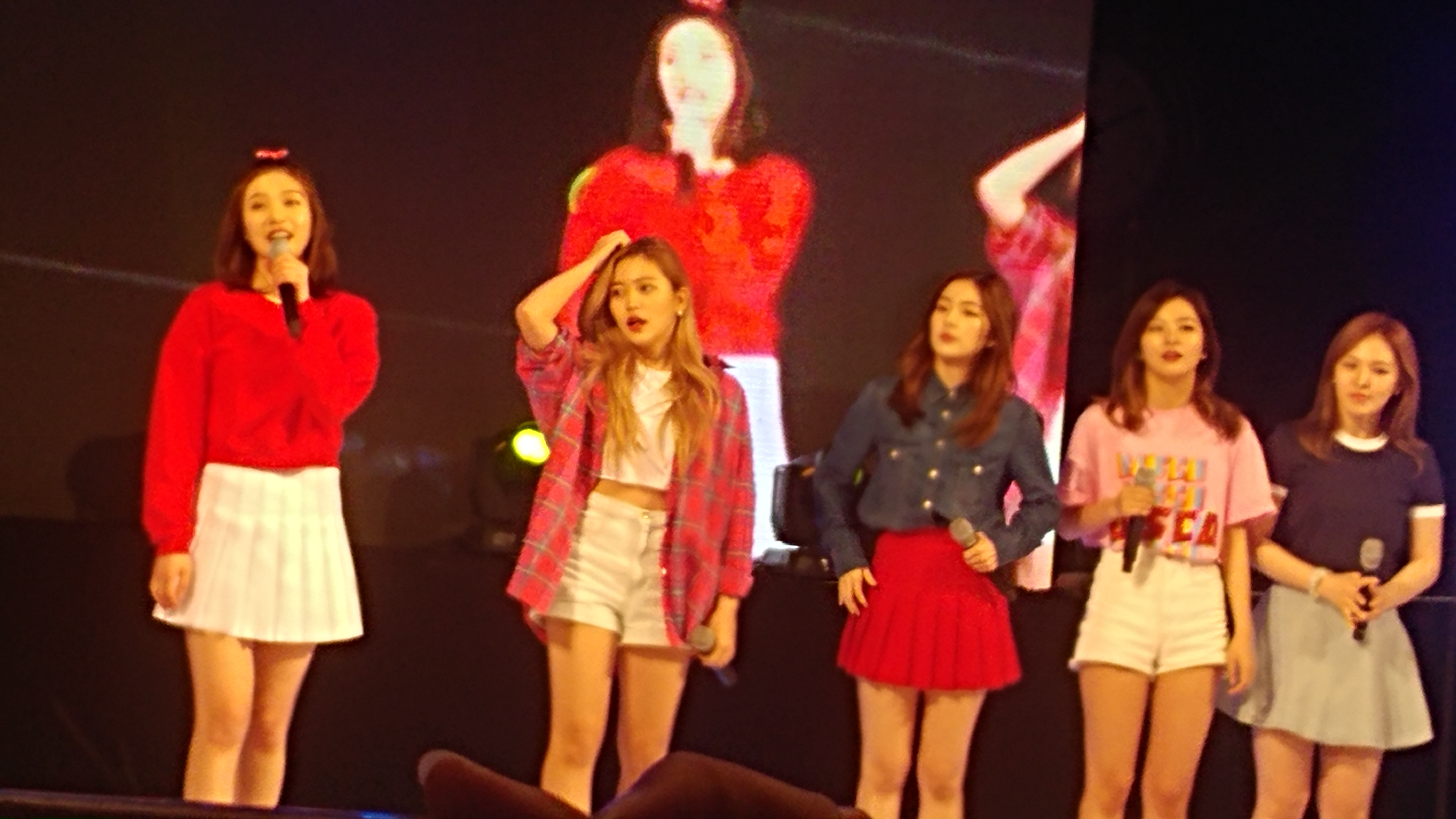 Red Velvet in Myongji University Festival.